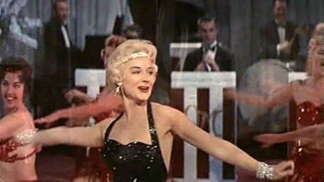 Screenshot of Hope Lange from the trailer for the film Pocketful of Miracles